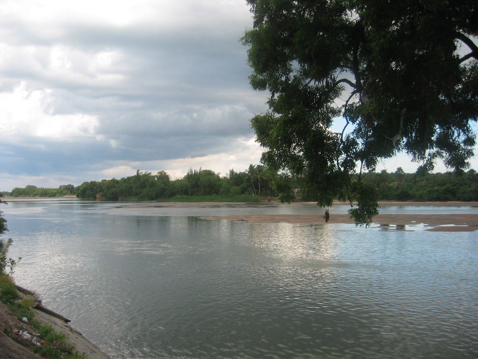 The river Kaviri (Kaveri) at the Thyagaraja memorial in Thiruvaiyaru, Thanjavur Distt., Tamil Nadu.